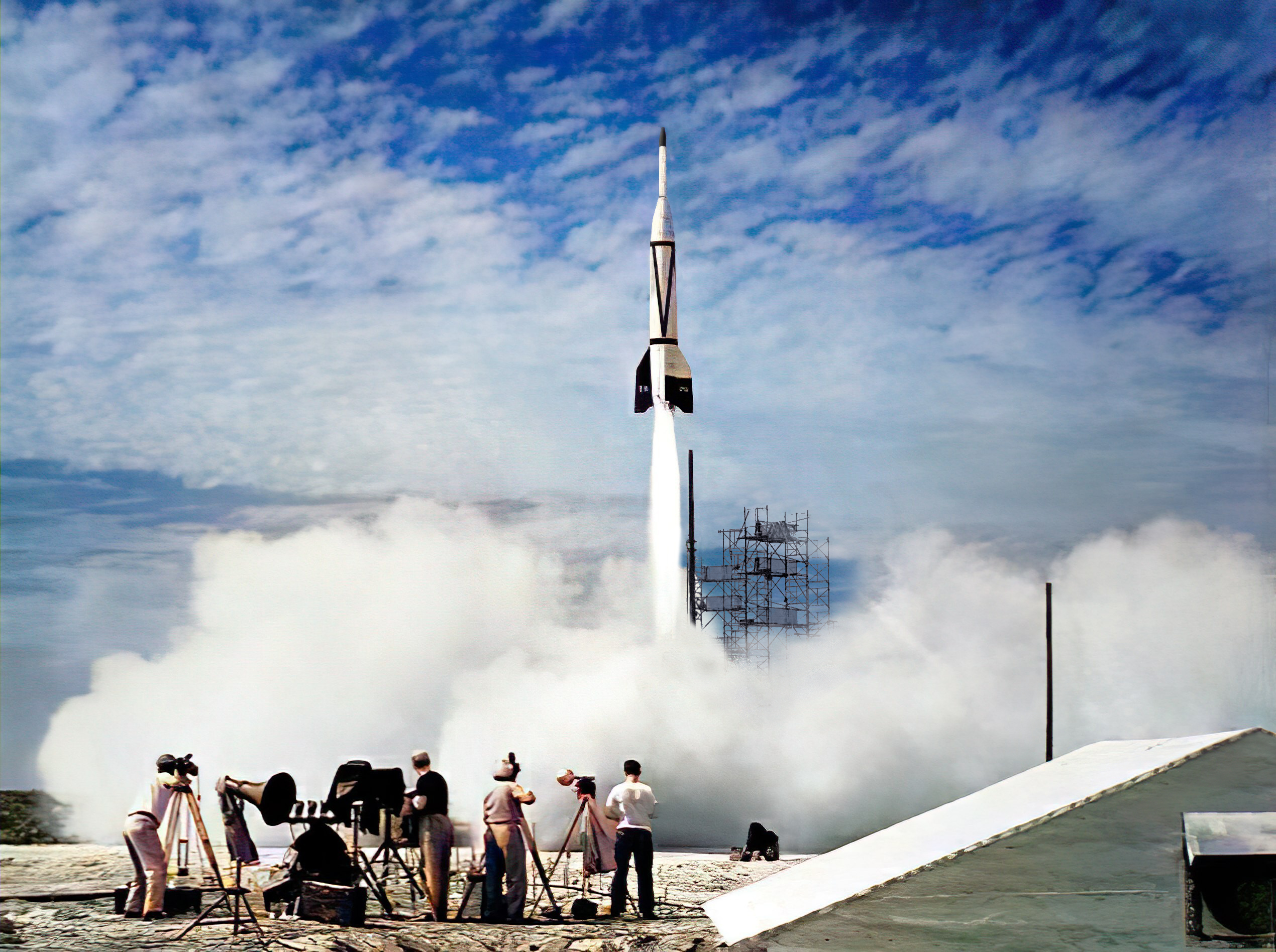 Bumper 8 nasa rocket fotage colorized and remastered